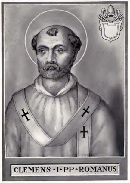 This illustration is from The Lives and Times of the Popes by Chevalier Artaud de Montor, New York: The Catholic Publication Society of America, 1911. It was originally published in 1842.